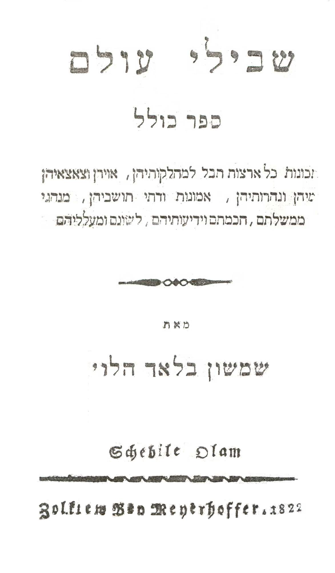 Front page of "Shevile olam", geography book by Hebrew Galician author Samson Bloch. "שבילי עולם", he:שמשון בלוך